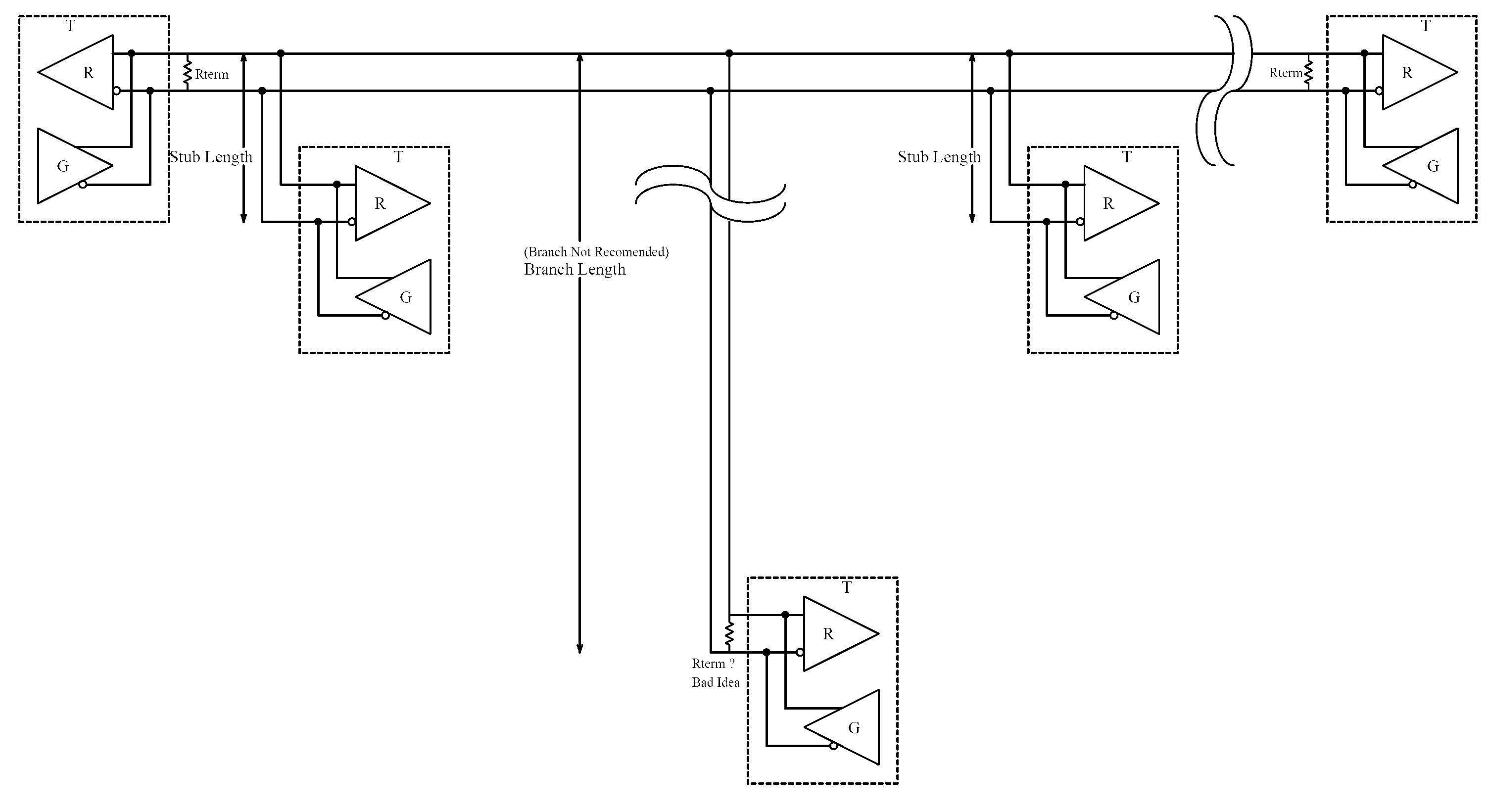 RS 485 network. Multiple nodes with terminations. Includes branch line which is not recommended